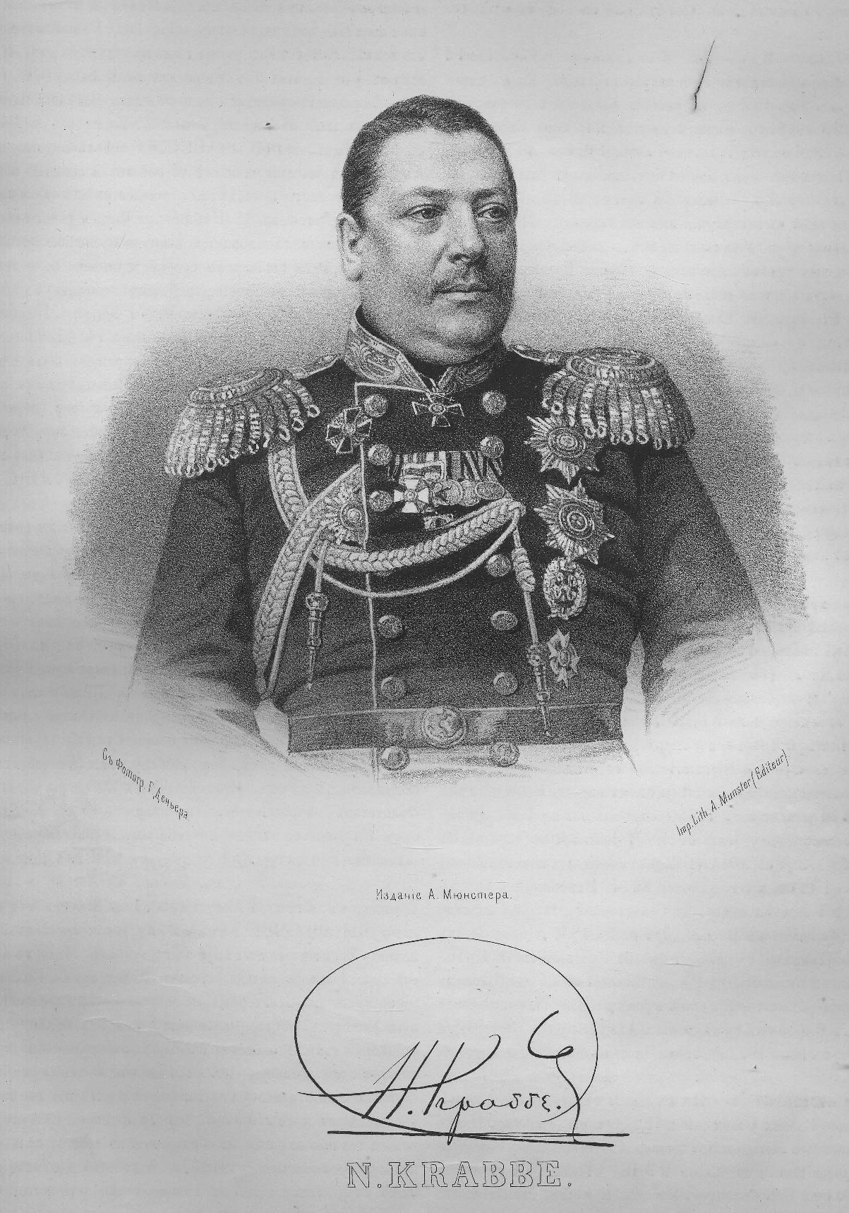 Nikolay Karlovich Krabbe